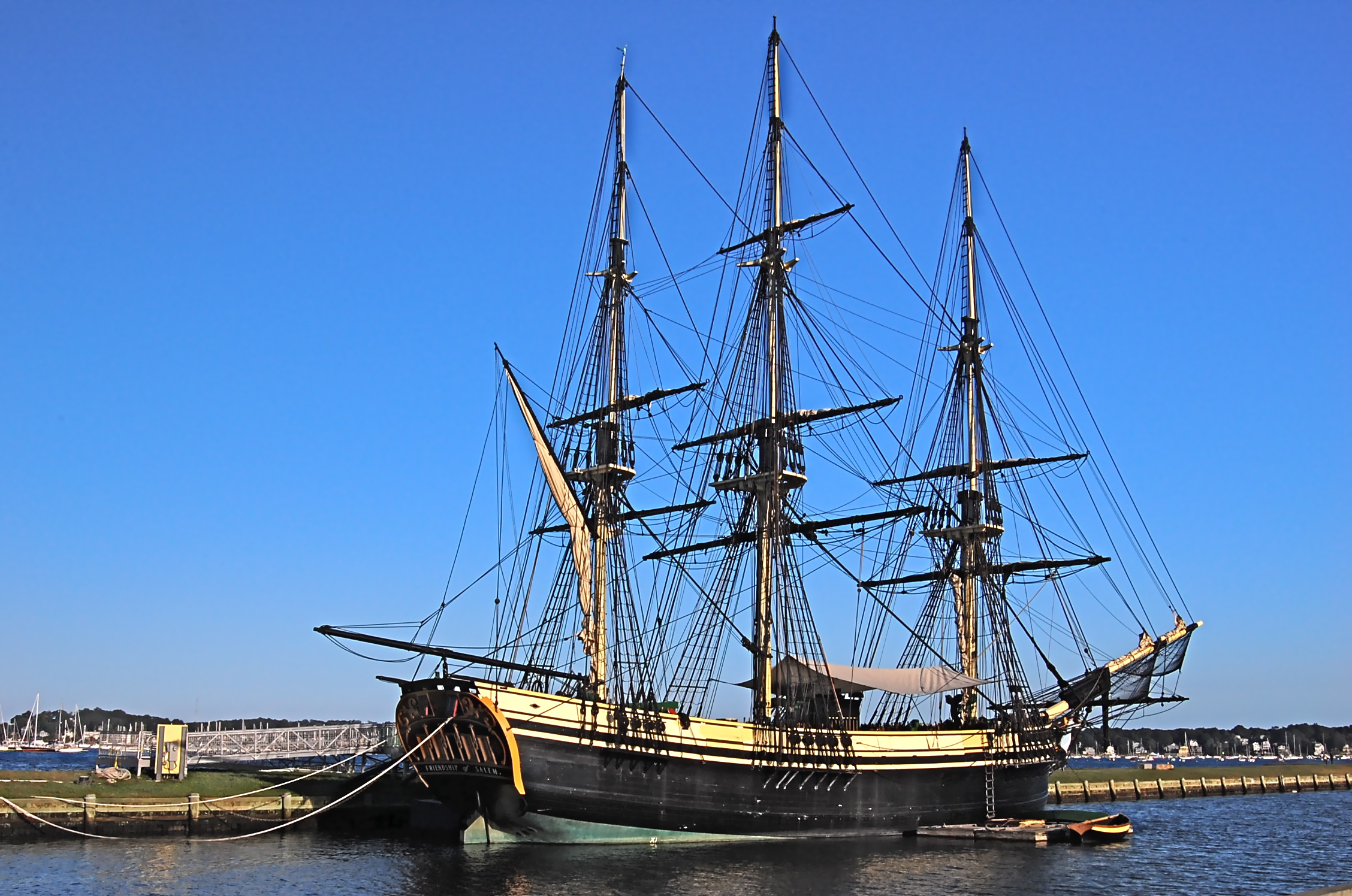 The tall ship Friendship, a replica of an 18th century East Indiaman that was captured by the British in 1812. She is docked in Salem Harbor off Derby Street, across from the Customs House.